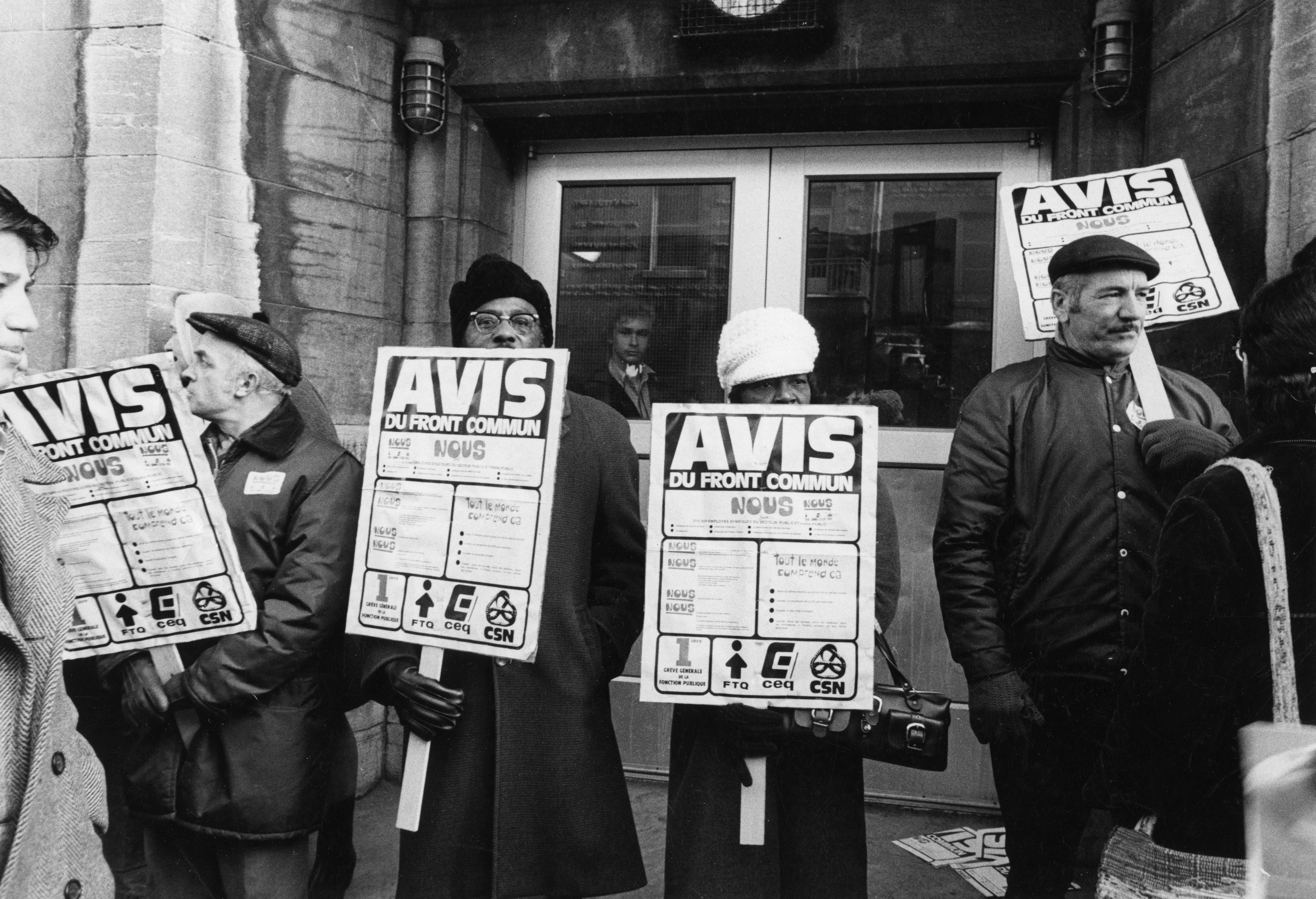 Piquetage du Front commun de 1972, le 11 avril 1972